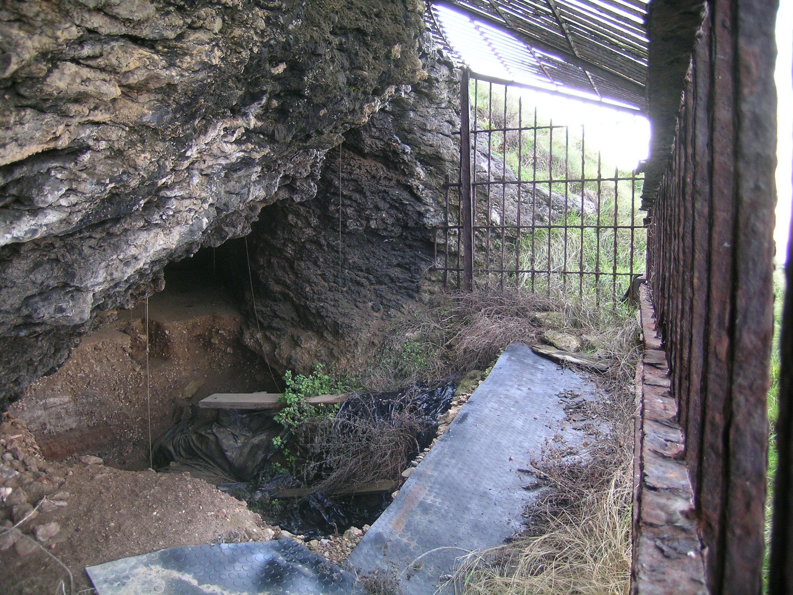 Antzoriz I / Santa Katalina kobazuloko aztarnategia (Lekeitio), 2015eko egokitze lanen aurretik.